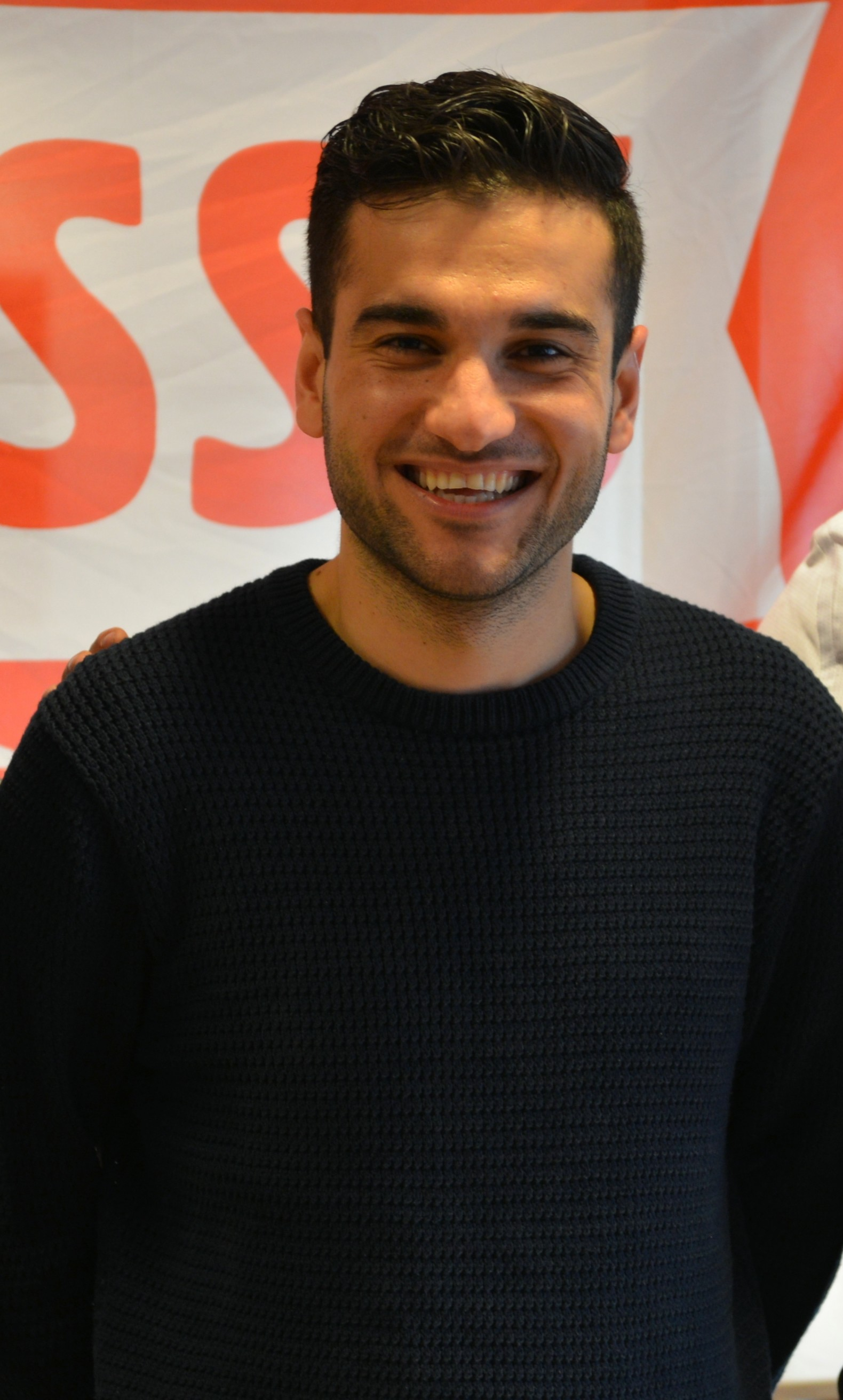 Rozgar Watmani on 29 April 2015 in Stockholm, Sweden.